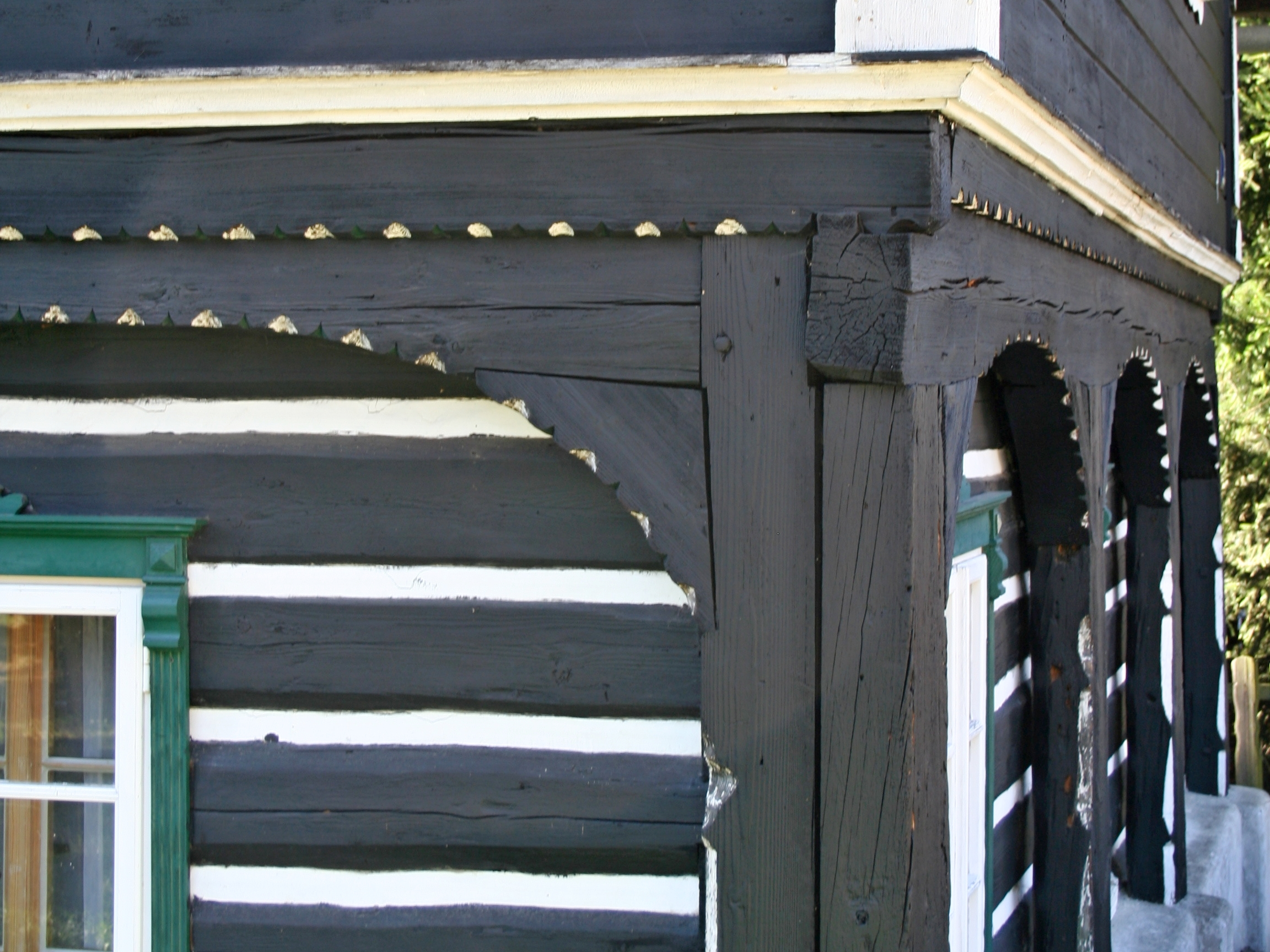 Záporka podstávky u č. p. 27 ve Vysoké Lípě.